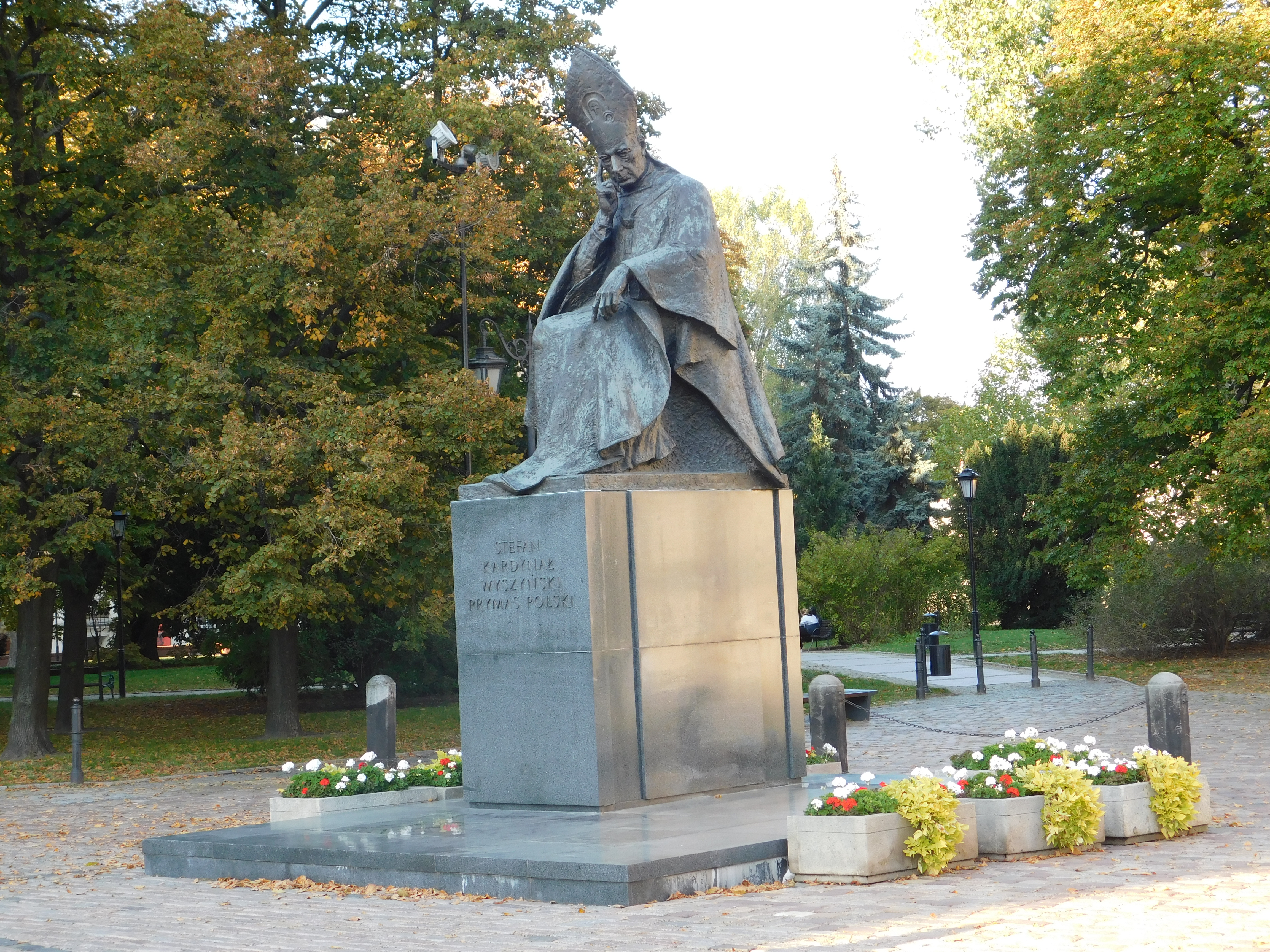 Stefan Kardynal Wyszynski monument in Warsaw Poland 6OCT 19